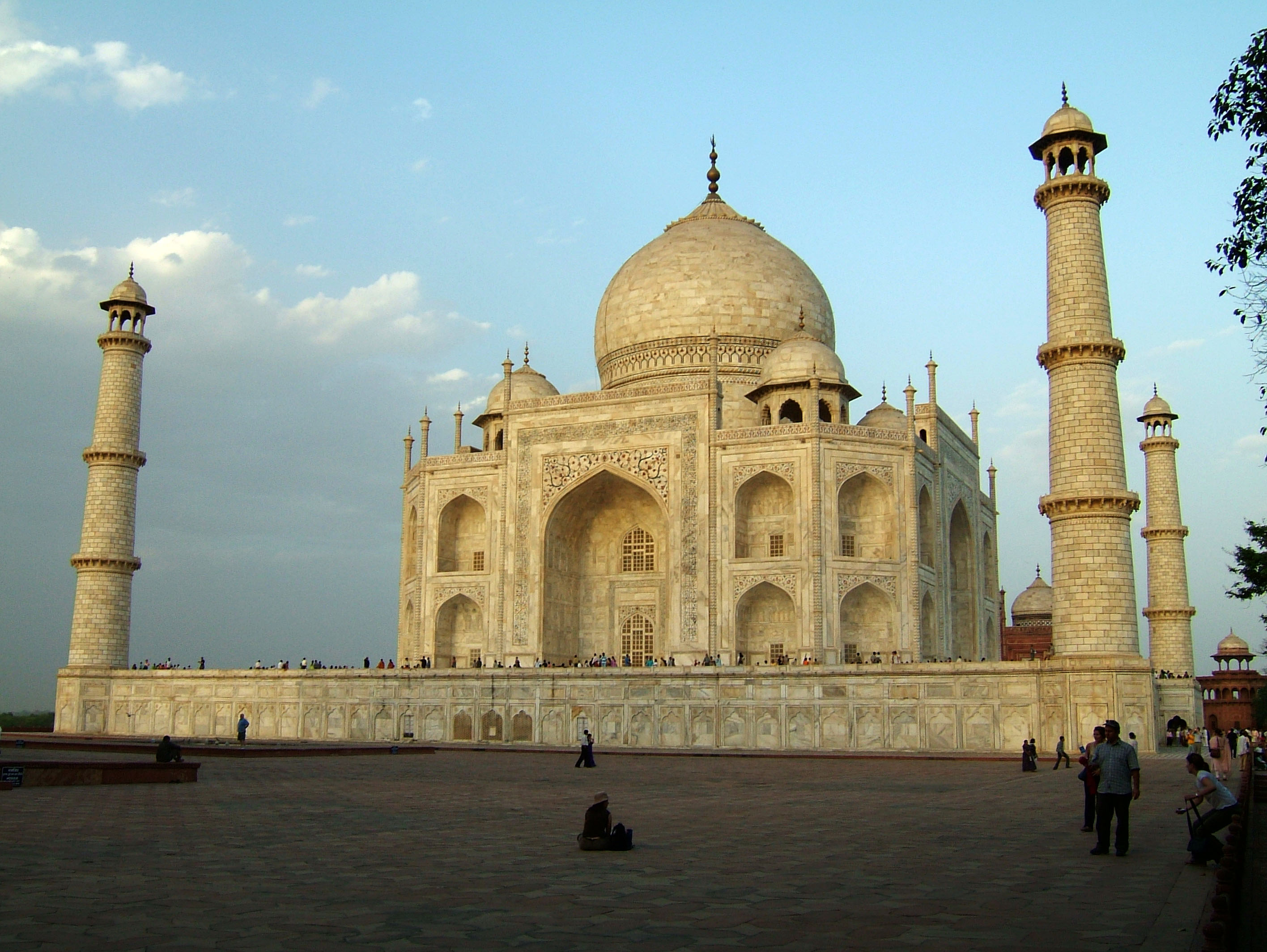 Taj Mahal Mausoleum is known for its color changes going from white, yellow and pink depending on the time of day